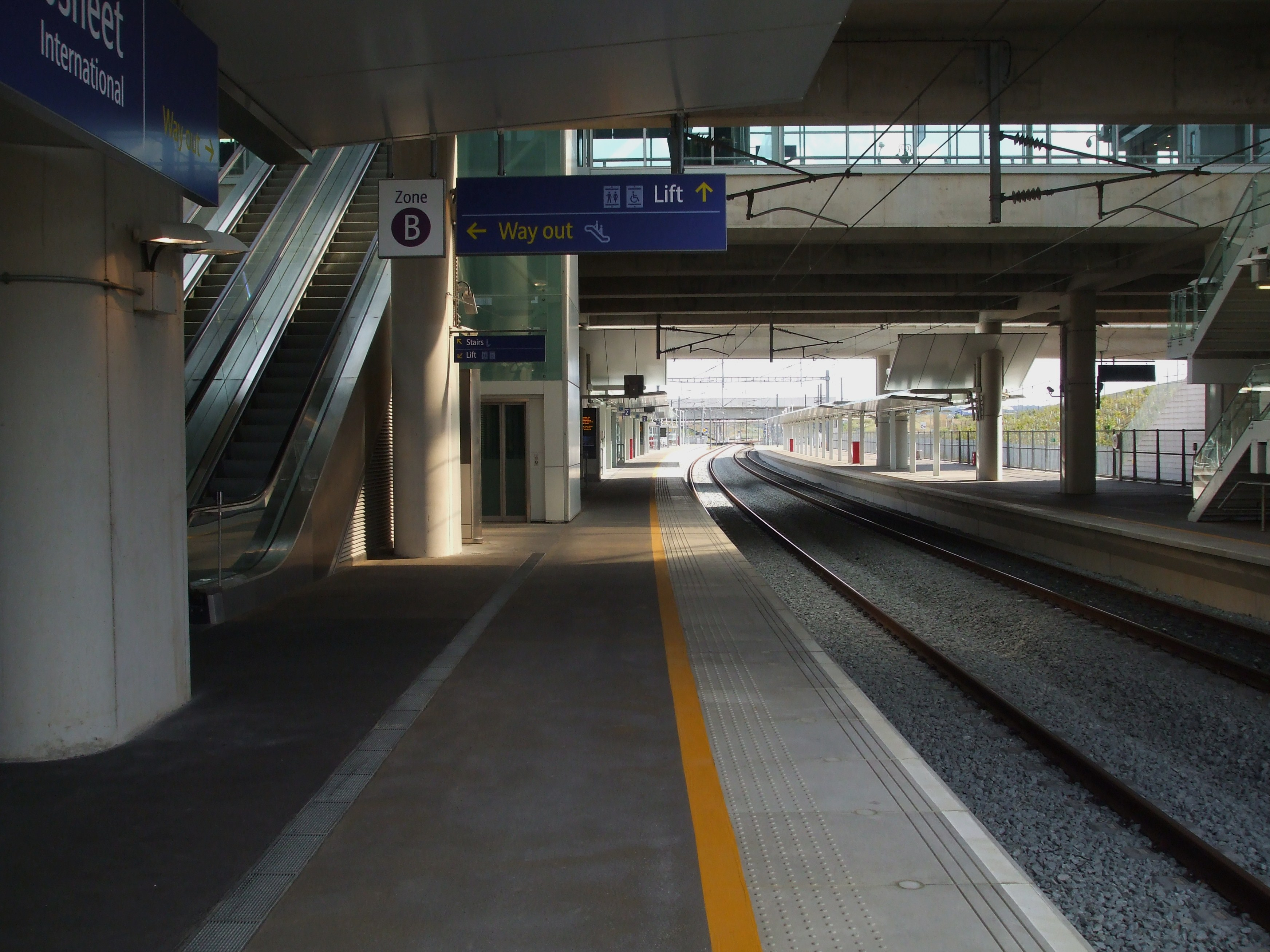 Ebbsfleet International station platform 2 looking east